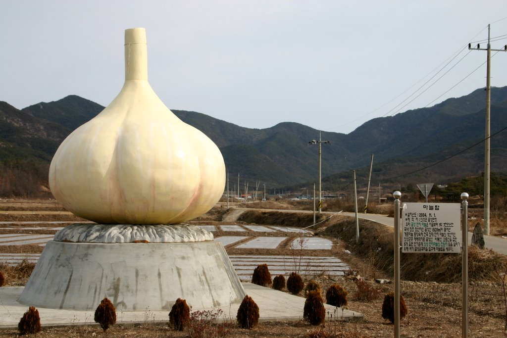 Garlic Tower at Mancheon-ri (Mancheon Township) Uiseong County, Gyeongsangbuk-do, South Korea.